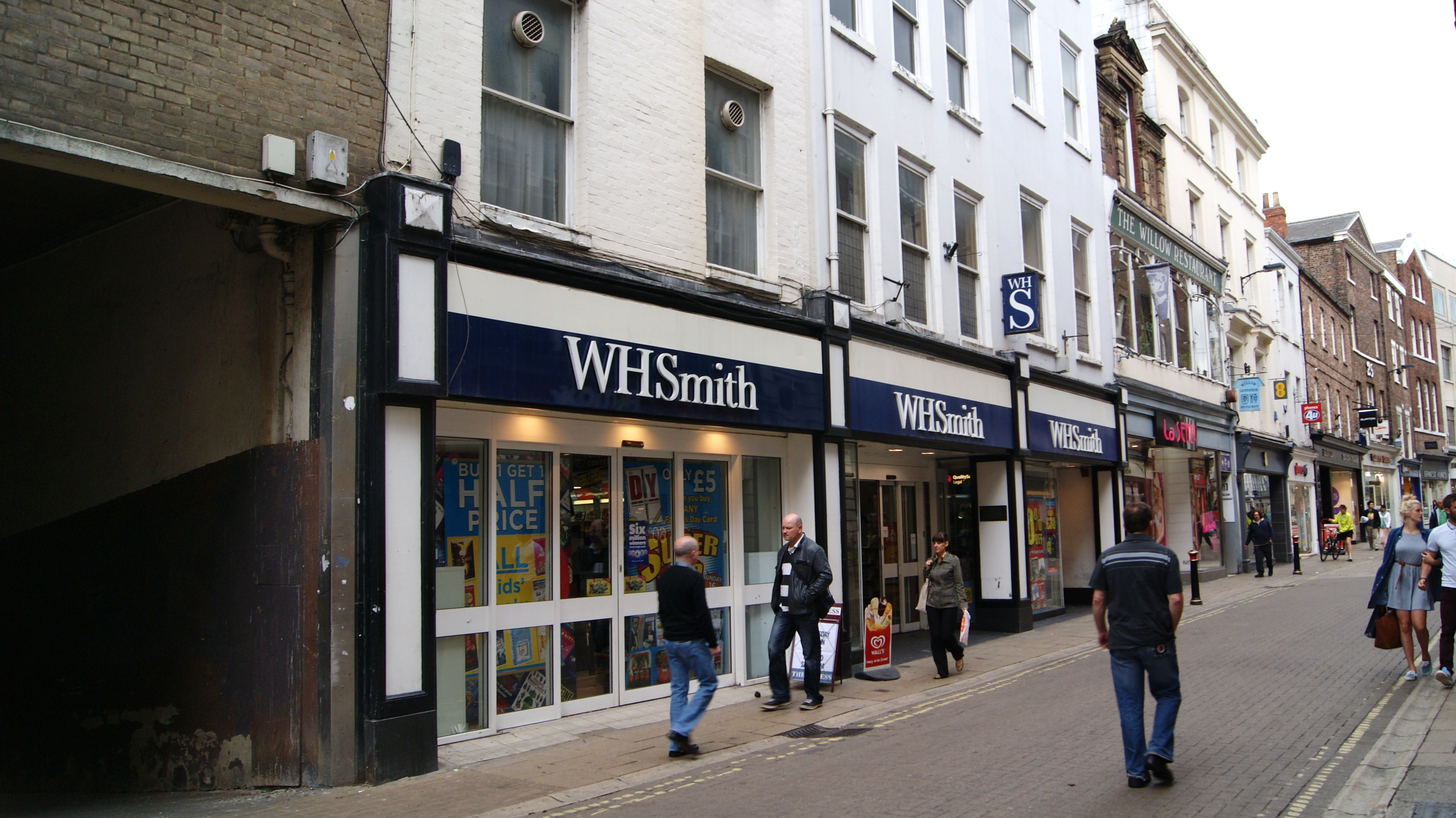 WH Smith, Coney Street, York, North Yorkshire. Taken on the afternoon of Wednesday the 12th of June 2013.